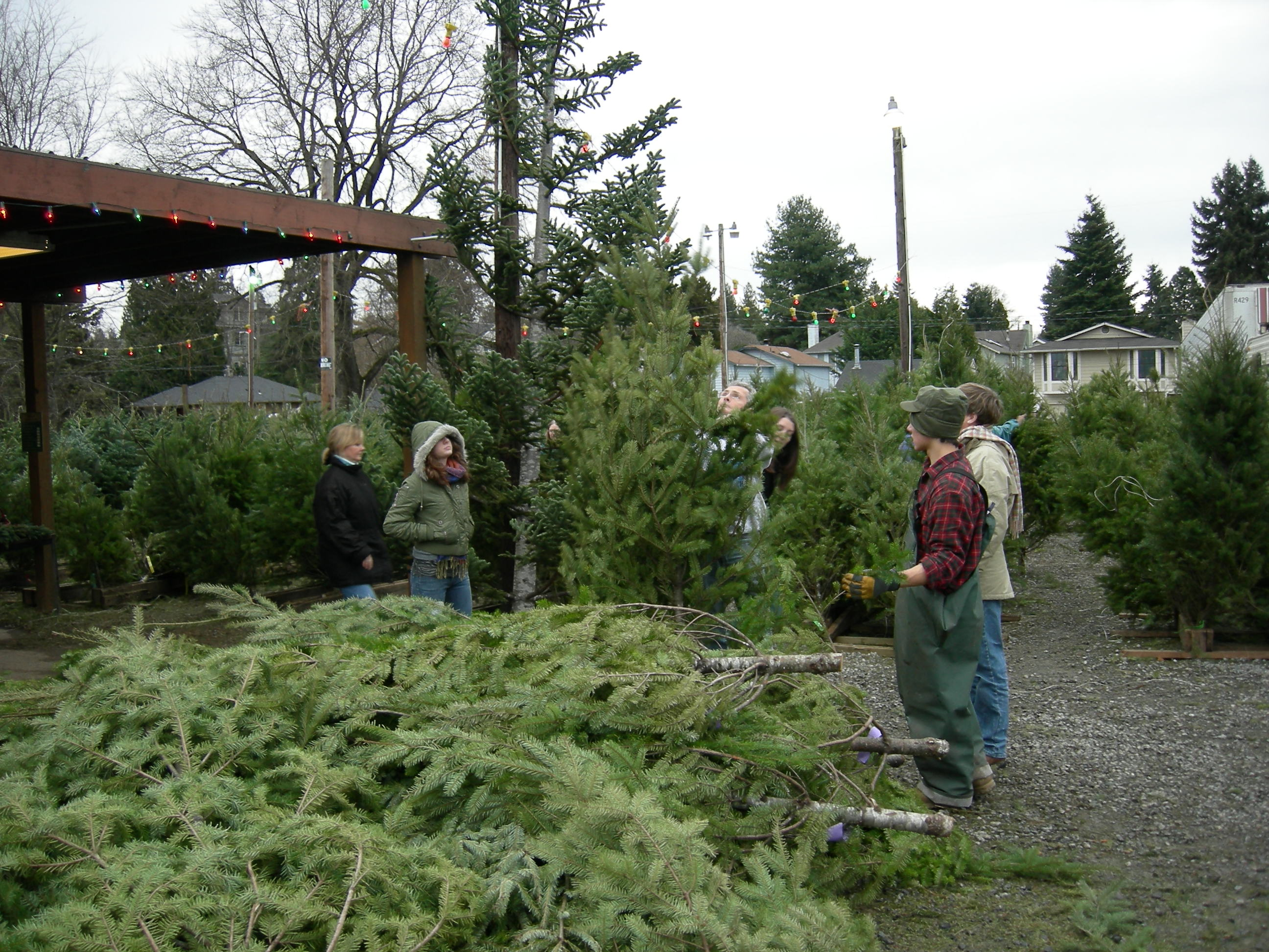 Hunter's Tree Farm lot in the 7744 block of 35th Avenue NE, Wedgwood, Seattle, Washington. The actual Hunter's Tree Farm is in the Skokomish Valley, but they retain this plot of land in the city to sell Christmas trees every year. (It's also used in the summer and early autumn to sell berries, but not for much else.)